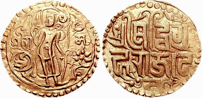 Vigraha Raja IV of the Chauhans of Ajmer Circa 1150-1164. AV Dinar (4.07 g, 12h). Rama standing left, holding bow; “sri ra ma” in Devanagari above bird and flower symbols across field / “Srimad vigra/ha raja de/va” in Devanagari in three lines across field; star and moon symbols below.